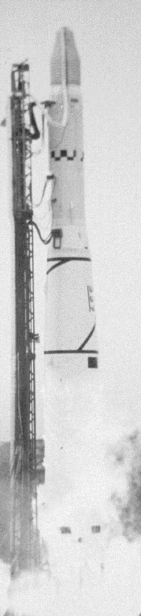 Launch of Corona 44 on-board of Thor Agena B rocket (Jun. 23, 1962)